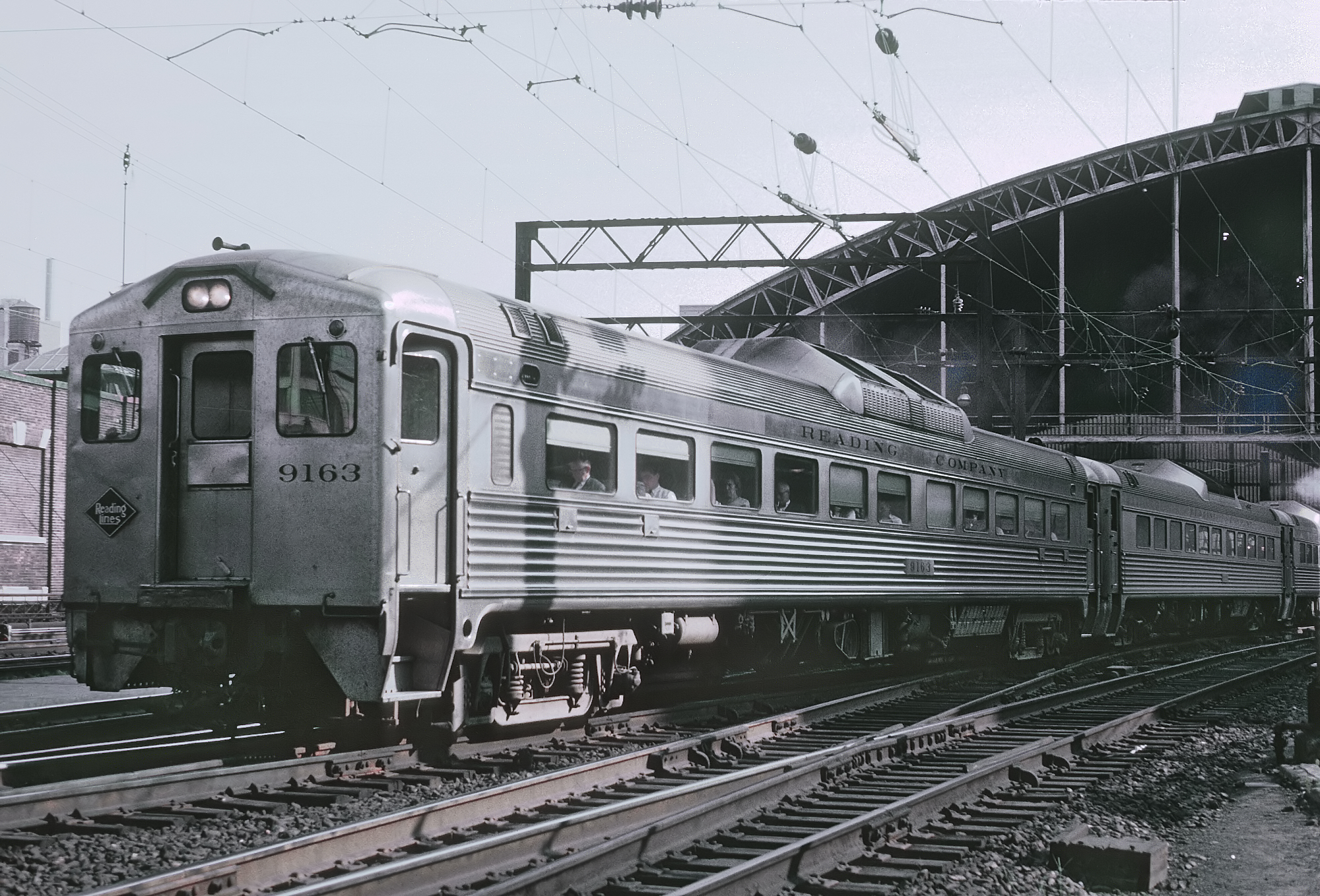 Budd RDC at Reading Terminal in September 1964